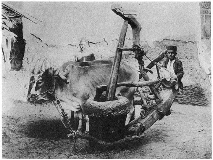 "Teli’s oil-press" from The Tribes and Castes of the Central Provinces of India Volume II